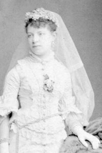 Giulia Warwick as Aline in The Sorceror 1878